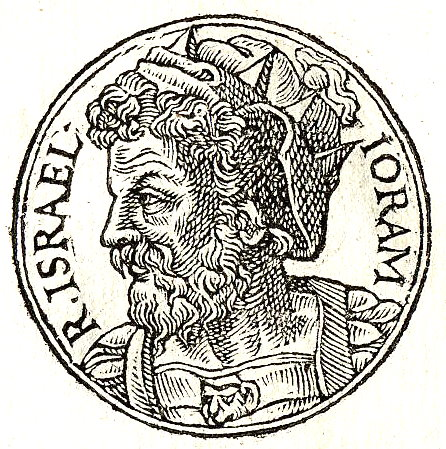 Joram of Israel was a king of the northern Kingdom of Israel.